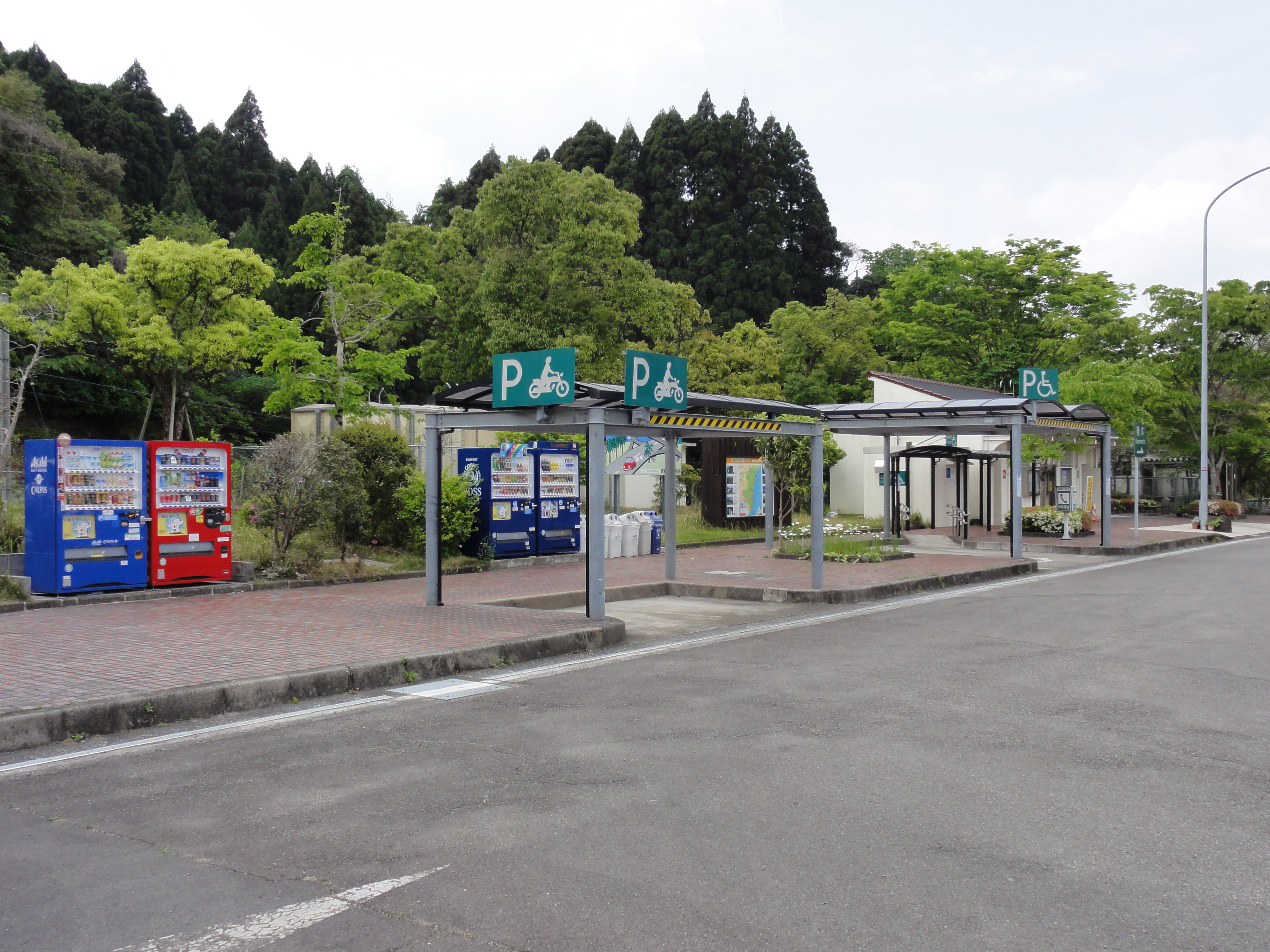 Kiyotake Parking Area ,Miyazaki prefecture, Japan